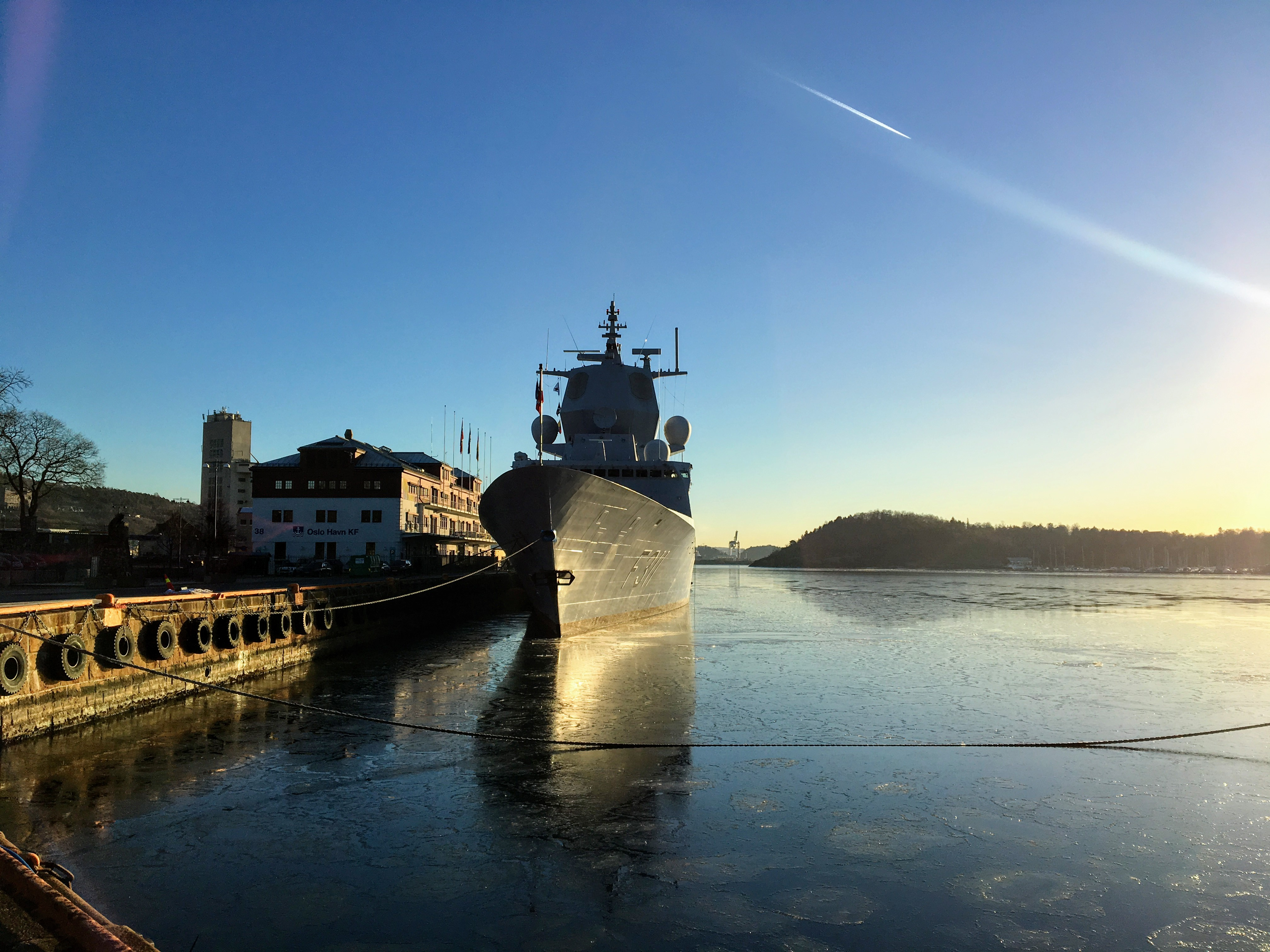 The Royal Norwegian Navy frigate KNM Roald Amundsen (F311) berthed at Vippetangen, Oslo (Norway), on 16 January 2017.